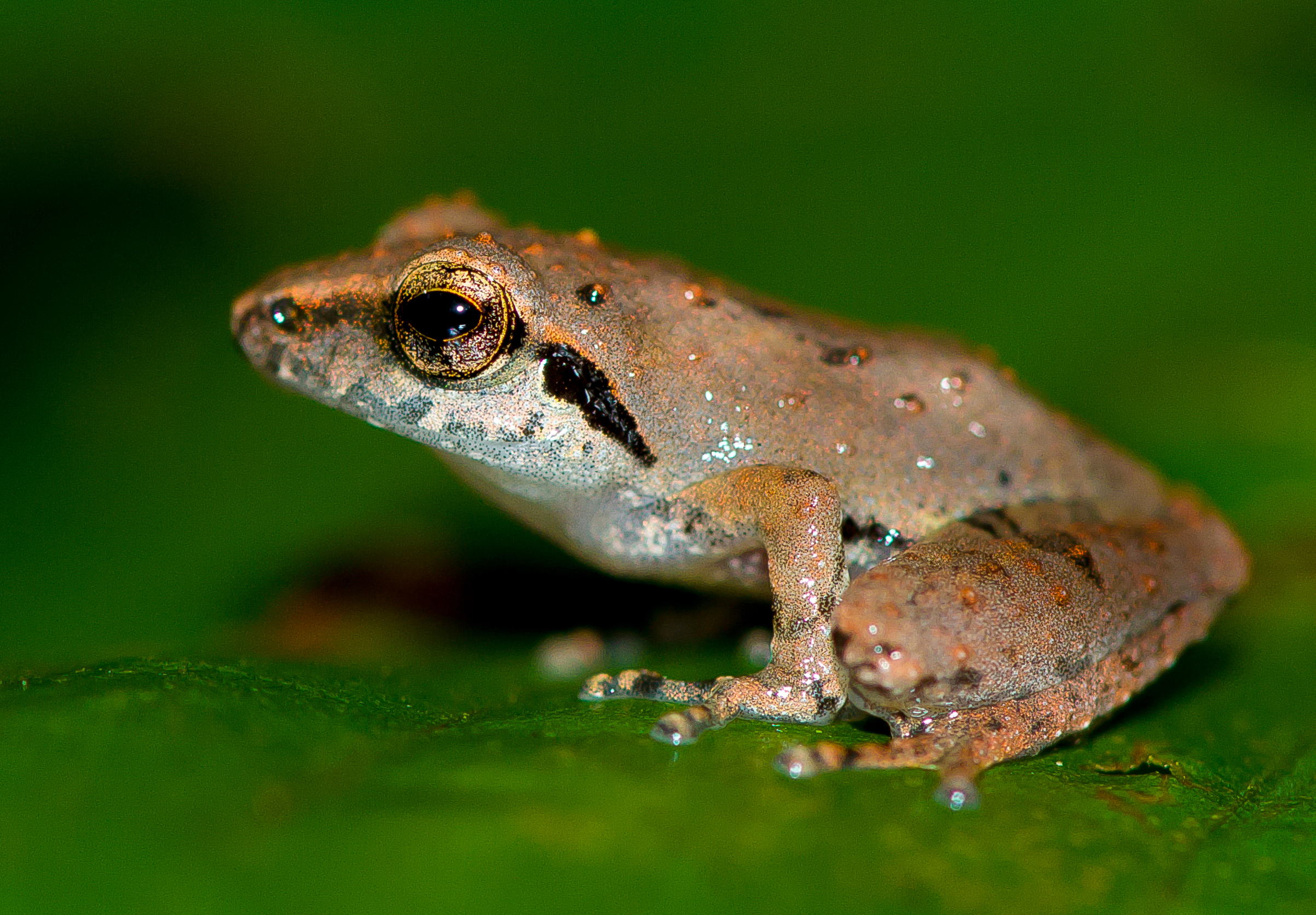 Pseudophilautus wynaadensis or Waynad bush frog is a species of frog in the Rhacophoridae family. This Endemic frog is recorded from Chamakkavu, a sacred groove near Payyanur from North Kerala.